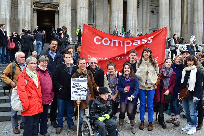 This picture is being used as a demonstration of the Compass membership. It is gives an example of the kind of events that Compass organise. This picture shows the Compass membership at an anti-austerity event run by the TUC in London